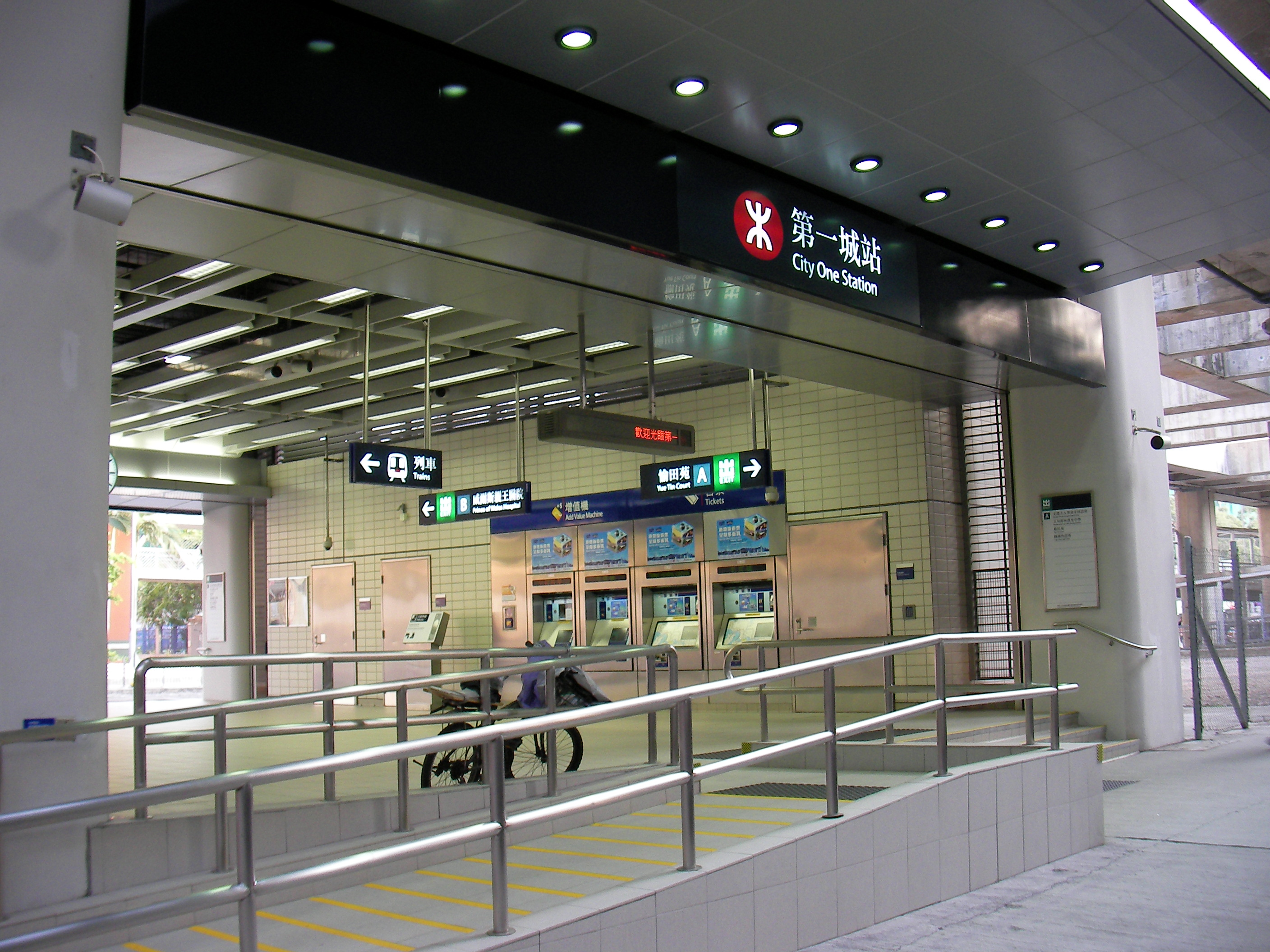 MTR City One Station Exit A